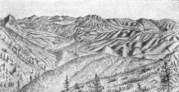 "Horseshoe Bend, Merced River", sketch by John Muir, published in 'My First Summer in the Sierra' (1911).